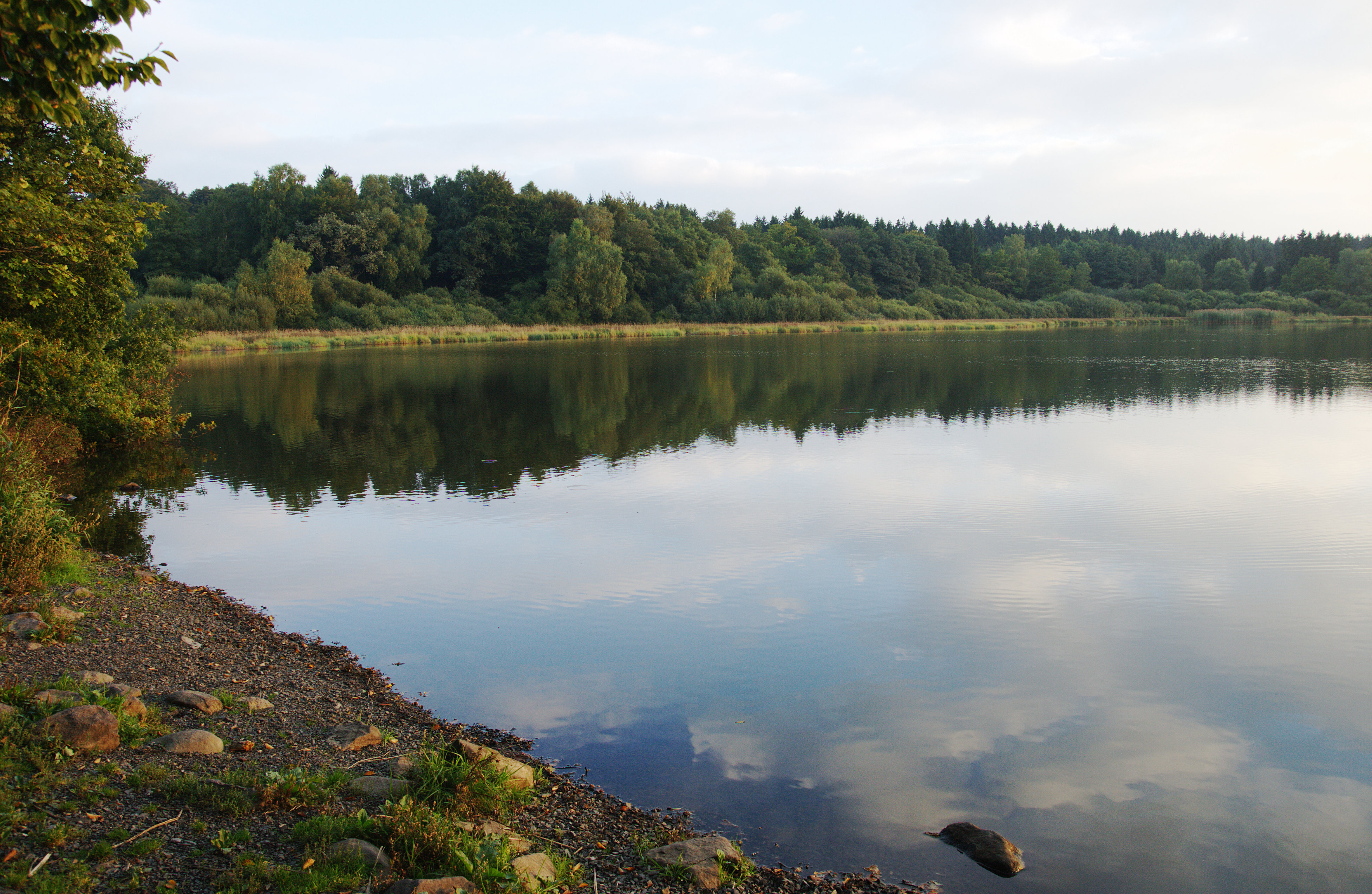 Haidenweiher pond, viewed from the east bank towards the south. Taken near road K1, municipality, Westerwald region, Rhineland-Palatinate, Germany